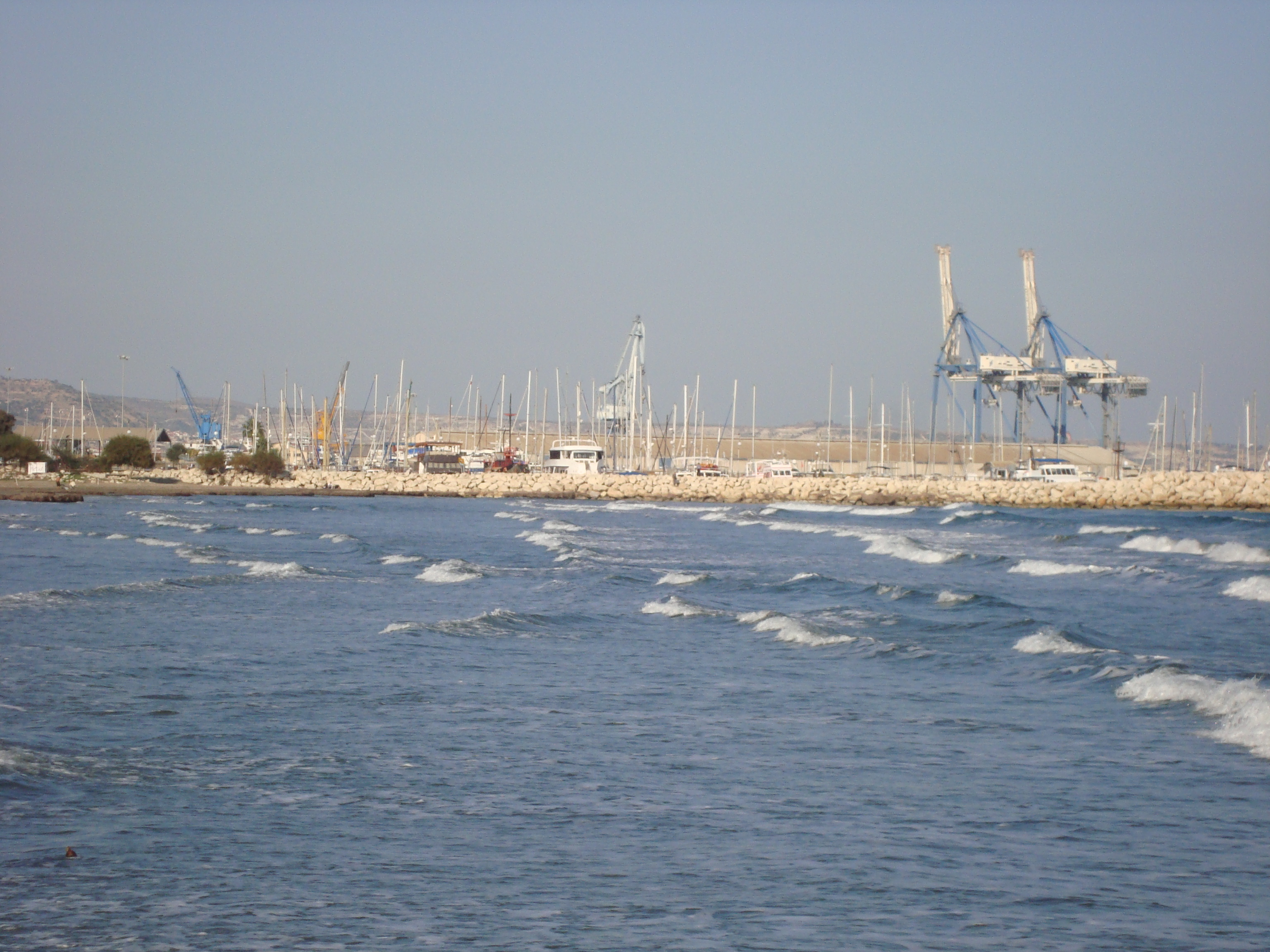 Busy Port of Larnaca Republic of Cyprus